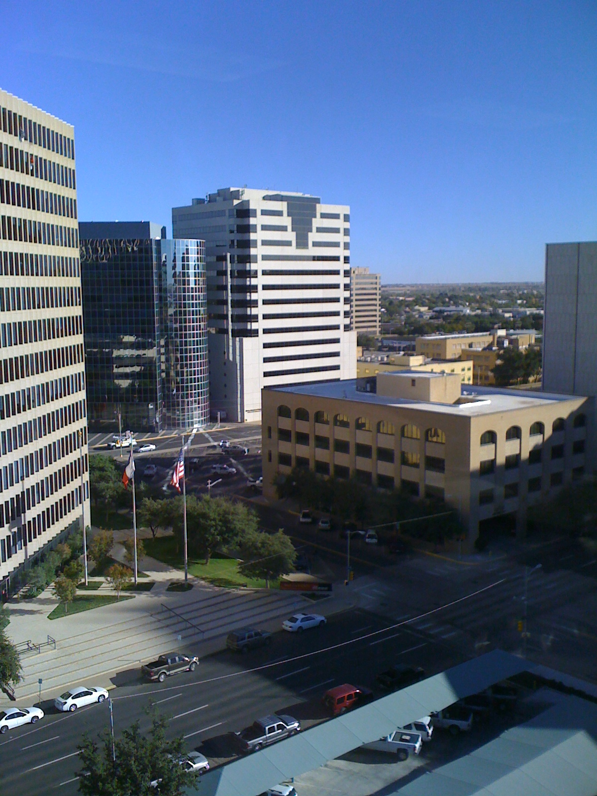 partial view of downtown midland from the WNB tower's 10th floor